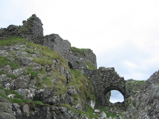 Dunscaith Castle. A view showing the remains of the bridge linking the castle to mainland Sleat. The two walls of the bridge are intact, but there is no longer a floor to it. The castle can be reached with cautious edging along a narrow ledge on the bridge, or by an easy scramble up the rock on which it sits.